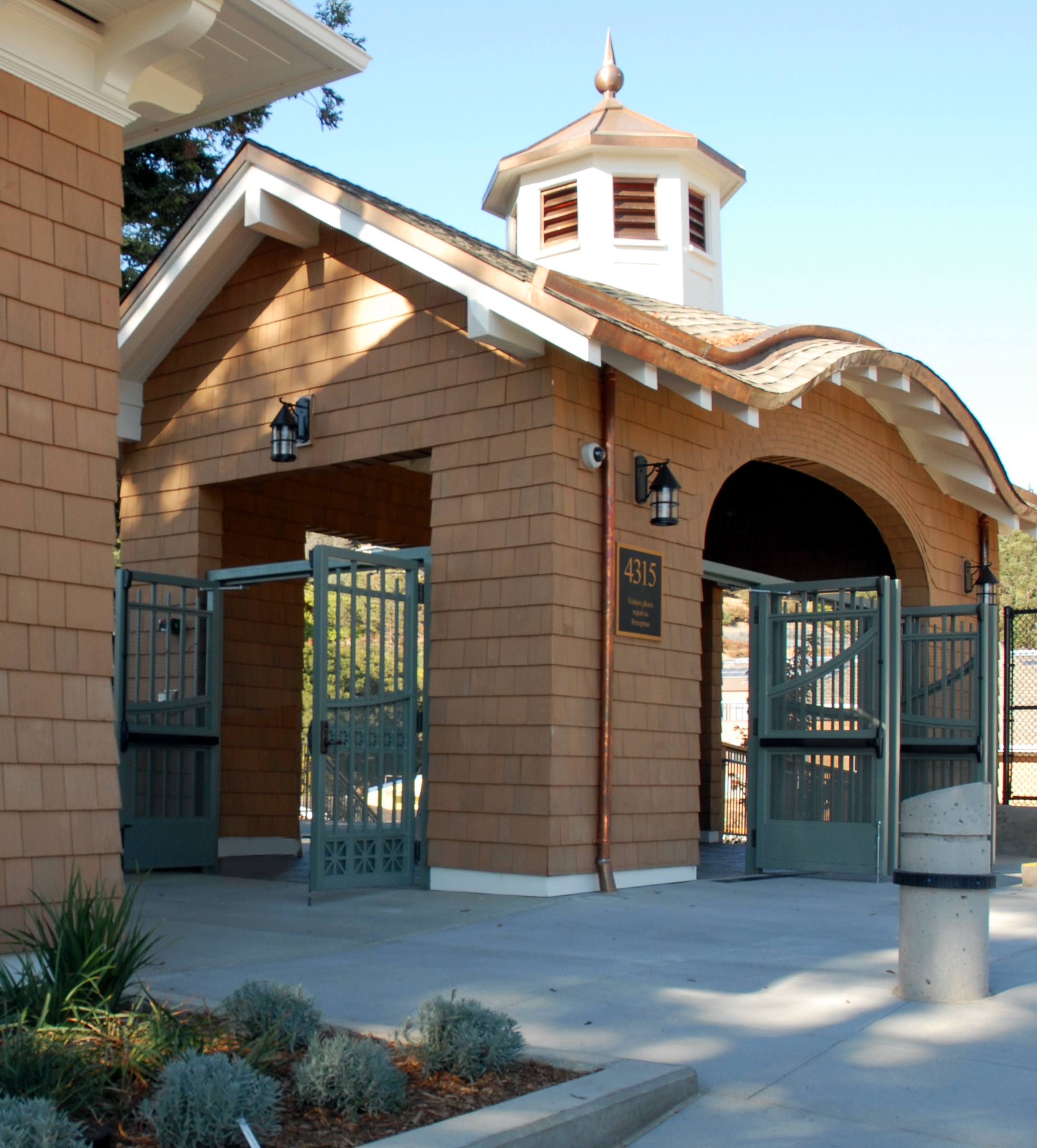 Salutation gate at Head-Royce school in Oakland designed by John Malick & Associates